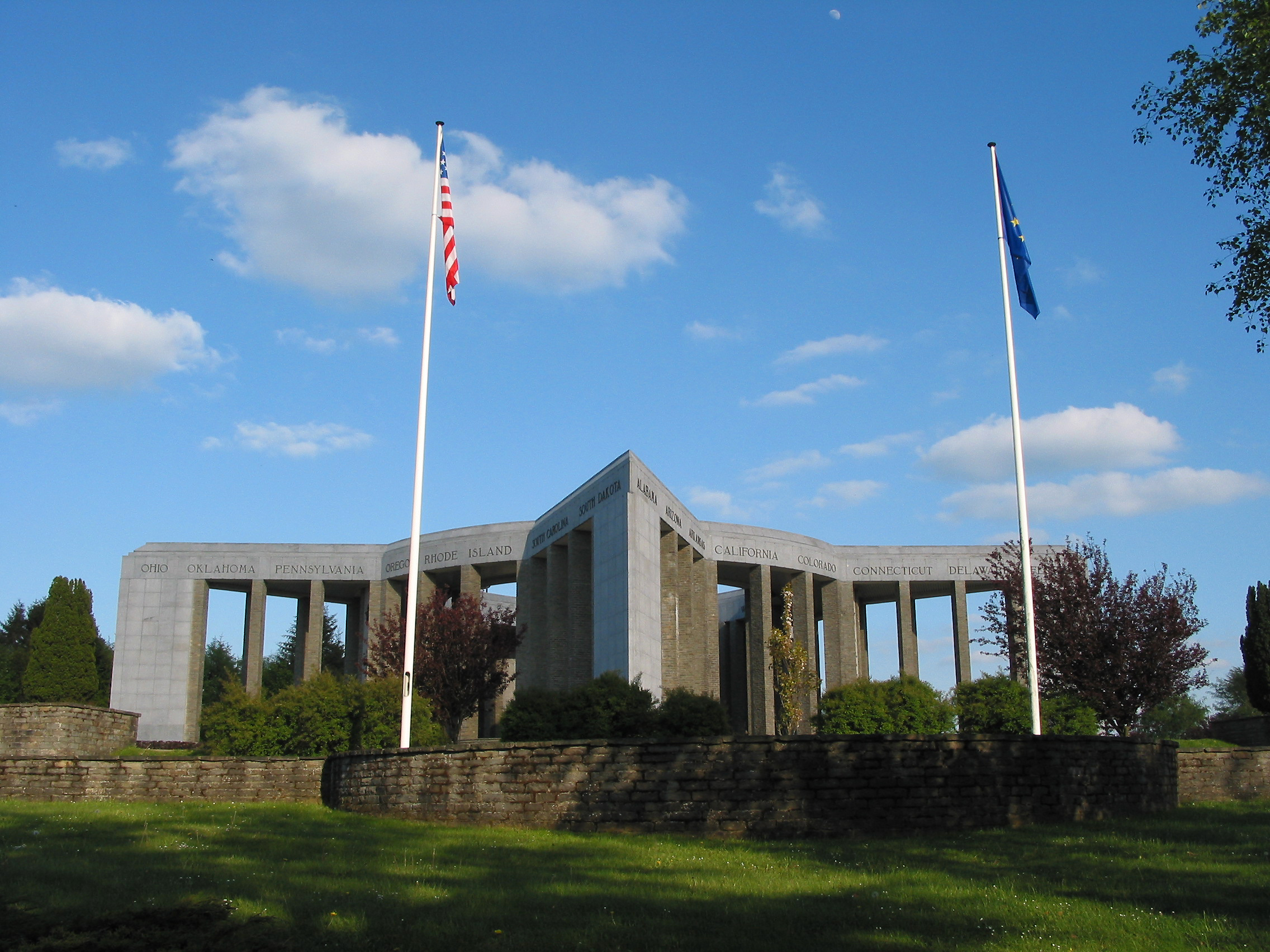 Bastogne (Belgium), the Mardasson memorial.